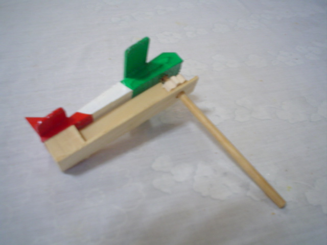 A photo of a ratchet, a musical instrument.